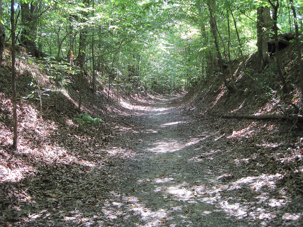 Trail of Tears — intact portion concurring with the Old Military Road. In Village Creek State Park, south of Wynne, Arkansas.